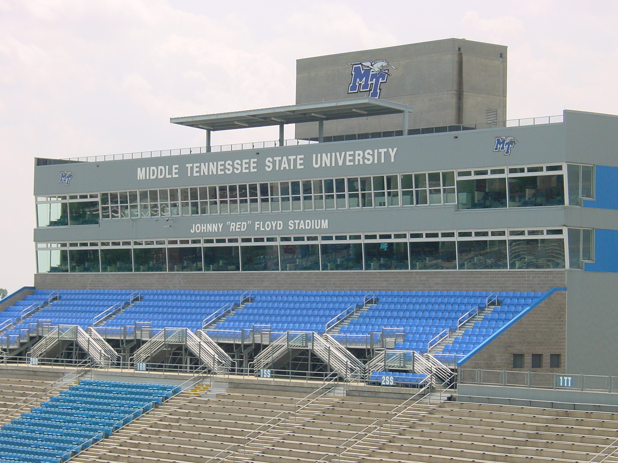 Middle Tennessee State University's Johnny "Red" Floyd Stadium pressbox section.